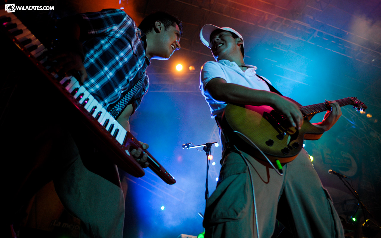 Foto de Andres Asturias